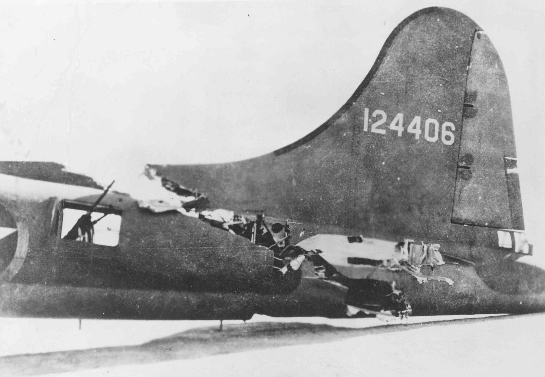 Close-up of the damaged tail of the Boeing B-17F-5-BO (S/N 41-24406) "All American III." The left horizontal stabilizer was torn completely off, and the aircraft was nearly cut in half by the collision.